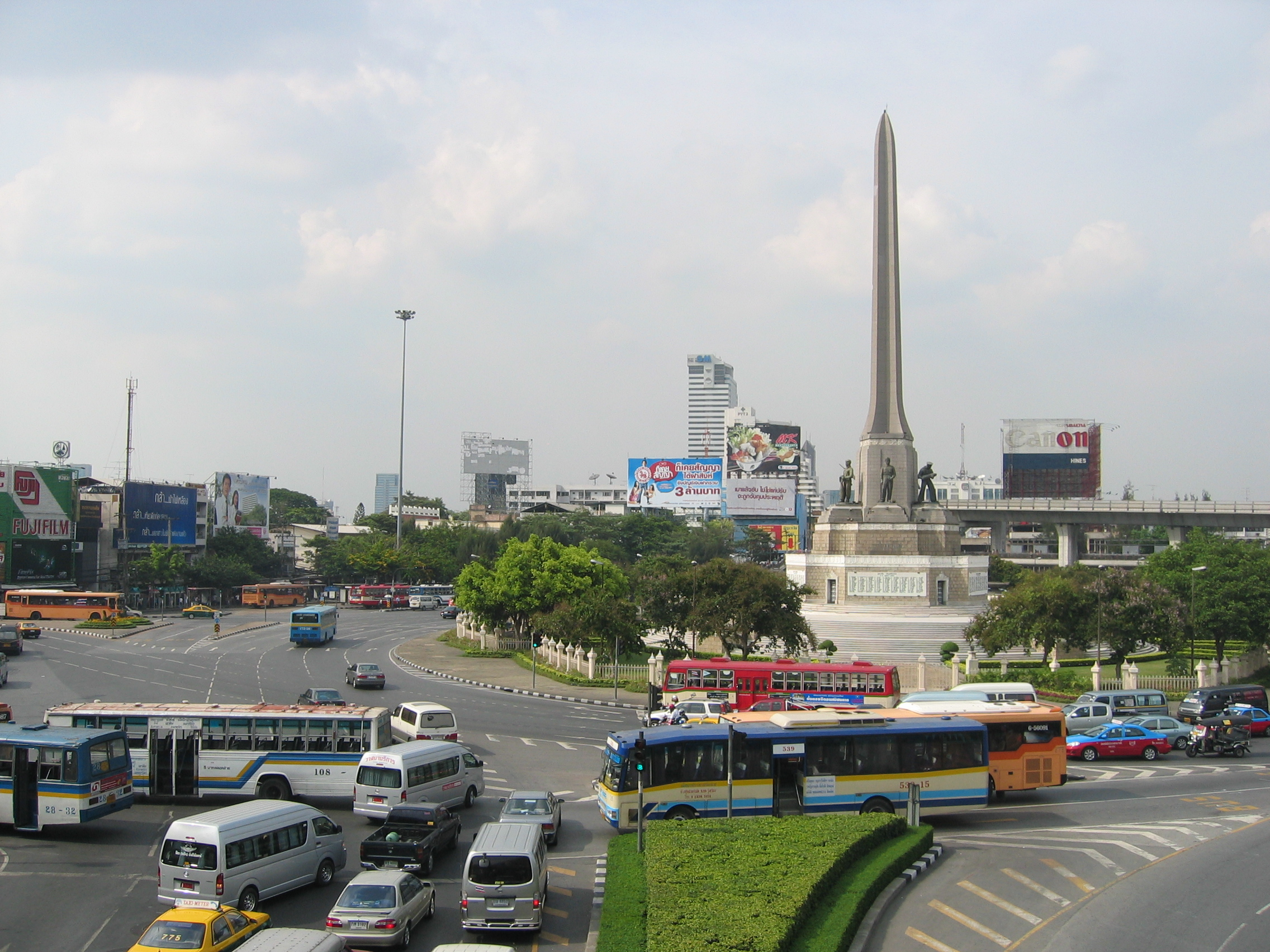 victory monument